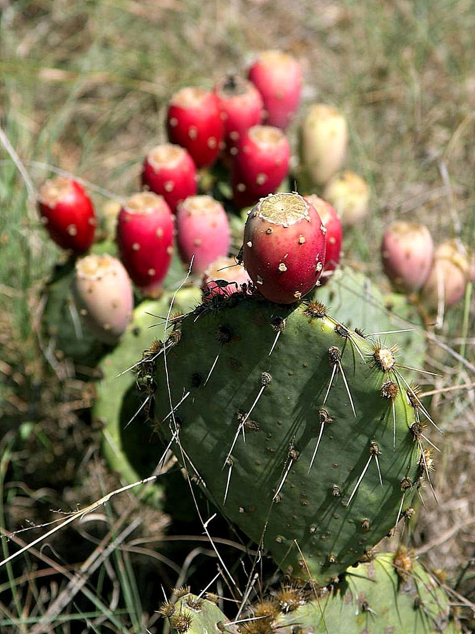 Image title: Prickly pear cactus in Texas Image from Public domain images website